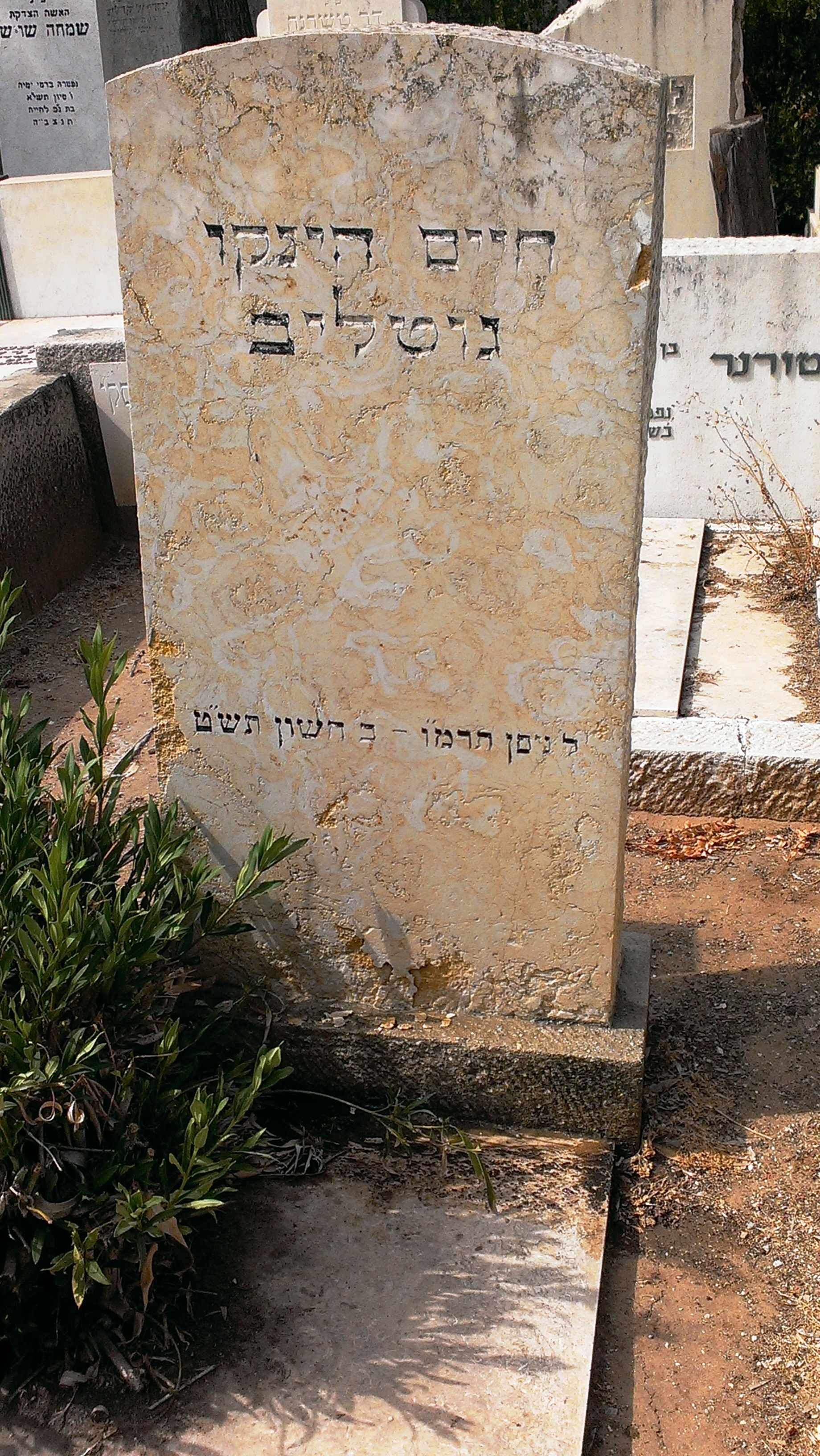 grave stone of Dr. Hinko Gottlieb (1886-1948)